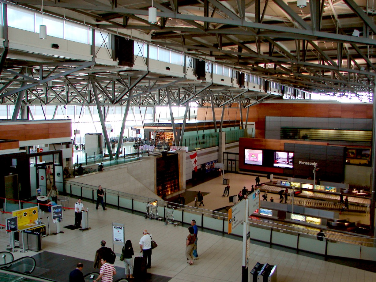 Interior of Ottawa Airport terminal, Ontario, Canada